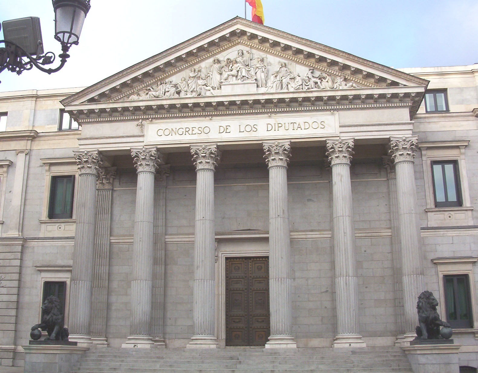 Partial view of the main façade of the Spanish Congress of Deputies. Built in Madrid between 1843 and 1850. Architect: Narciso Pascual y Colomer (1808–1870).